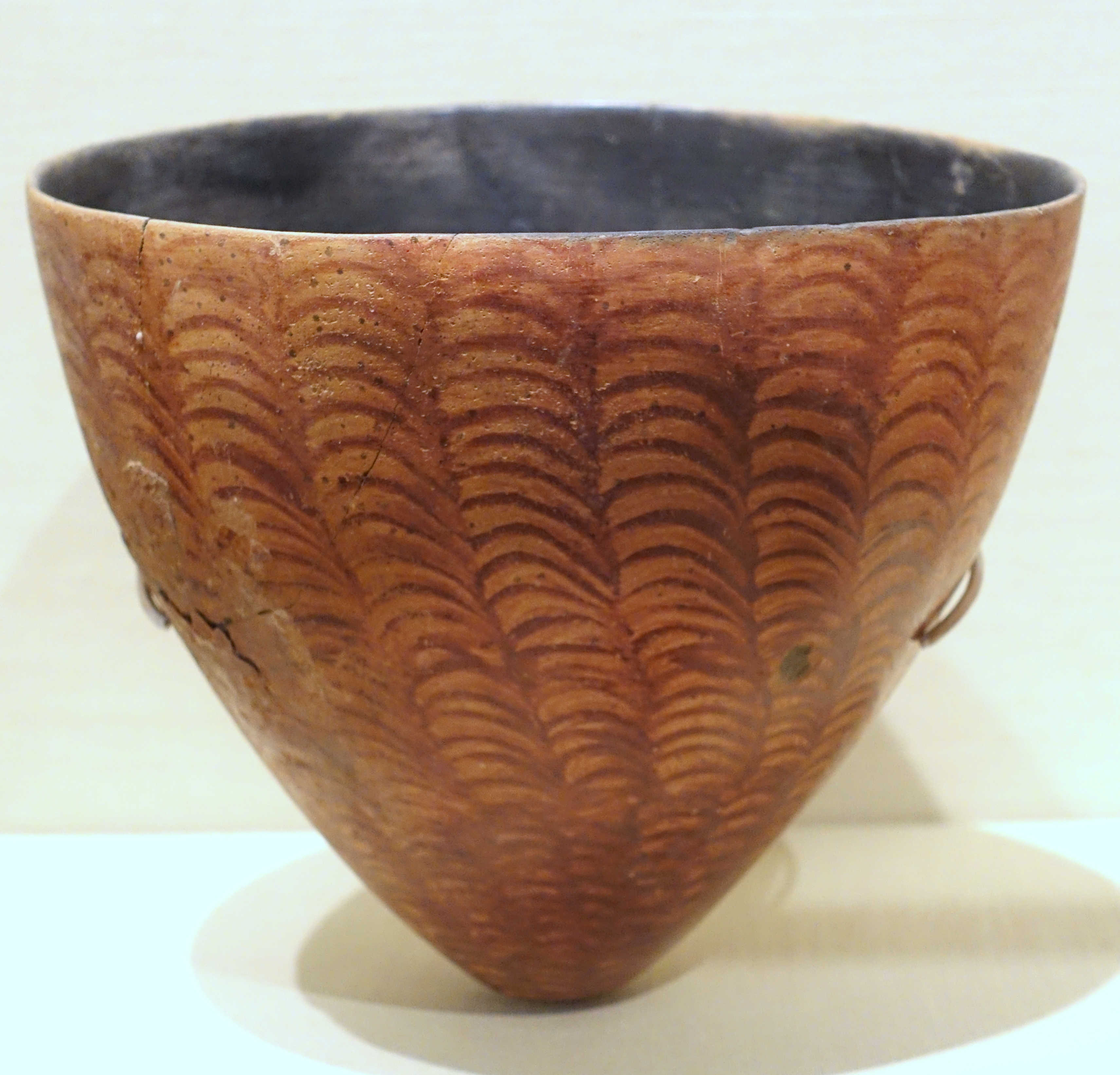 Exhibit in the Oriental Institute Museum, University of Chicago, Chicago, Illinois, USA. This work is old enough so that it is in the public domain.